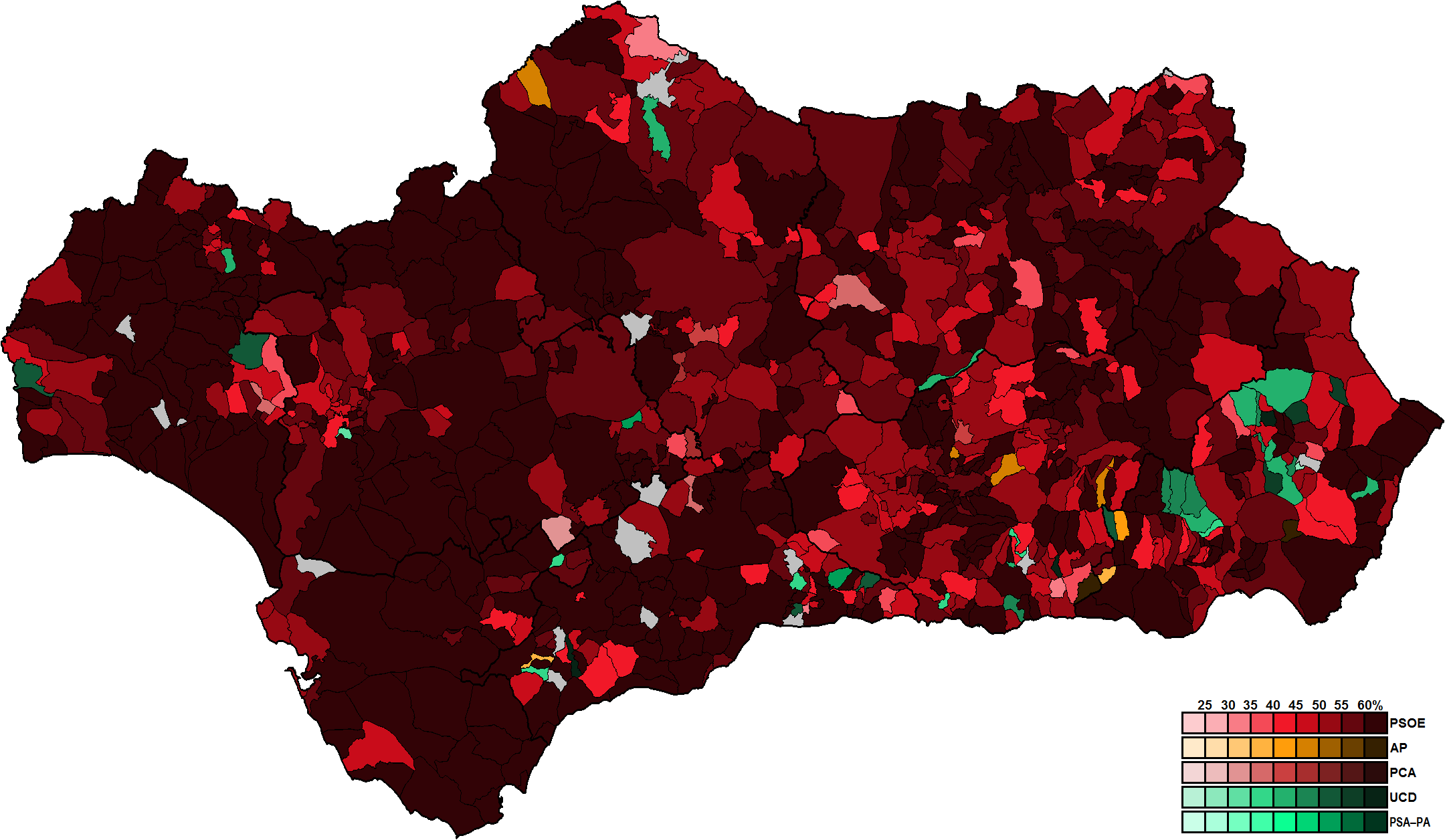 Most-voted party in Andalusia municipalities, showing vote share obtained, in the Spanish general election, 1982.